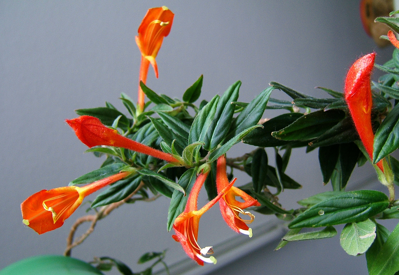 Goldfish Plant